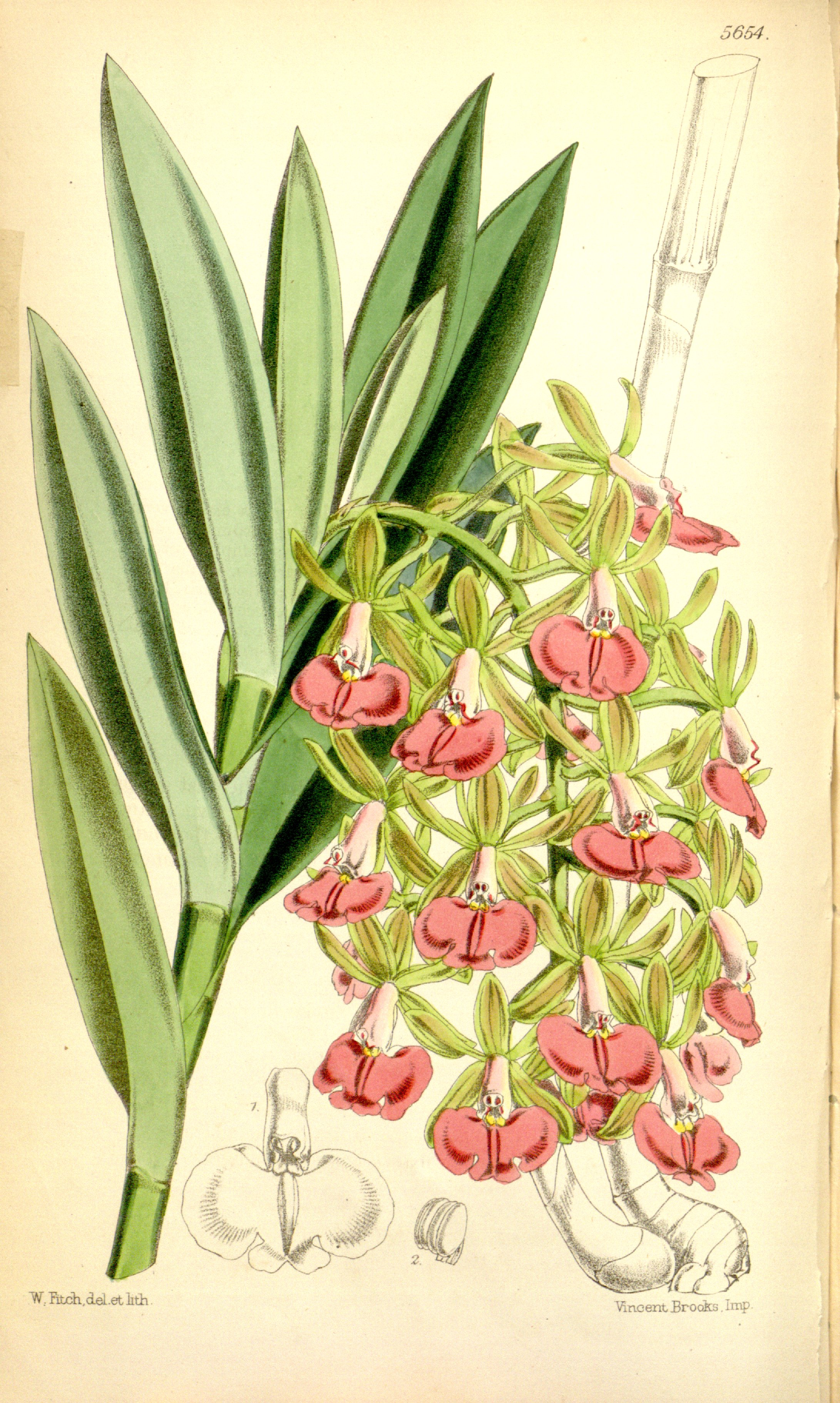 Illustration of Epidendrum cooperianum